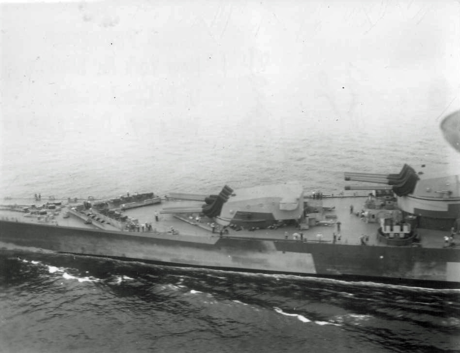 Aerial view of the French battleship Richelieu off New York City (USA), 1943. Note that in the original description the photo was taken by a U.S. Navy patrol plane when Richelieu was en route to New York, which was in February 1943. However, in the photos she is already equipped with 40 mm and 20 mm flak guns, her forward turret is repaired and her aircraft installations aft have been removed. The photo was therefore taken after her refit, in September or October 1943.